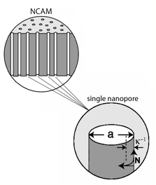 self made graphic used in the course of my graduate school career, no copyright